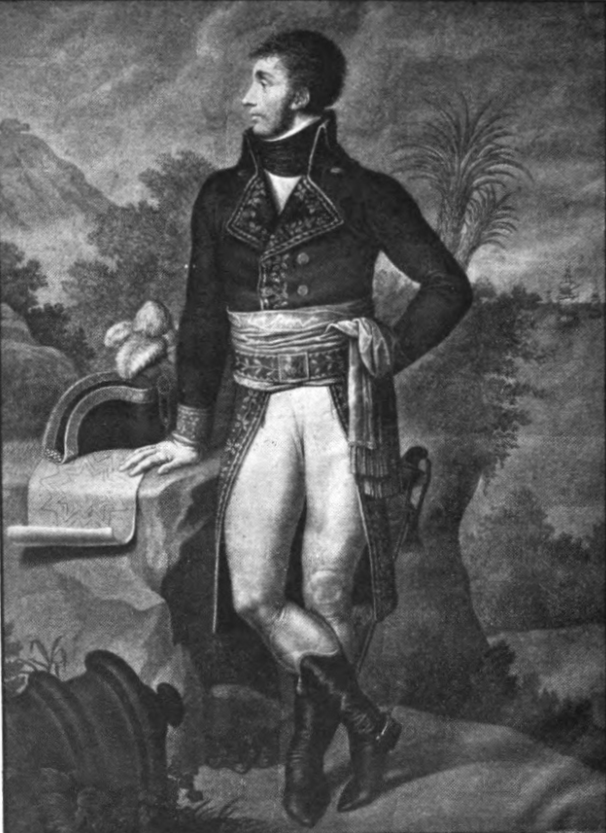 Black and white print of General Jean Hardy (1762-1802) in dark military coat with white breeches and boots. He stands with his left hand on his hip.